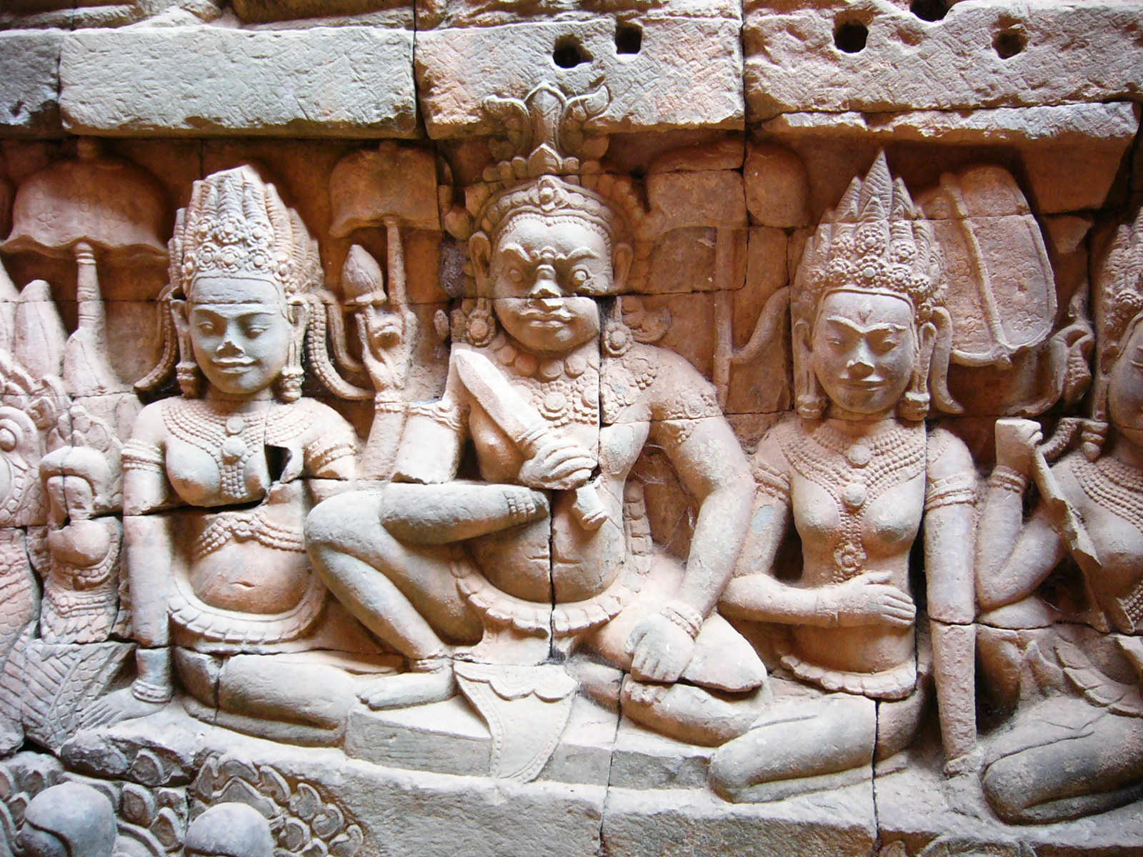 High relief form the Terrace of the Leper King in Angkor, Cambodia. Picture taken in December 2004.